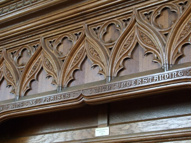 Interior of the Church of St Peter & St Paul, Old Bolingbroke "Sing ye praises with understanding", which is from Psalm 47:7 Carved into the organ surround.